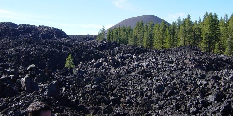 Cinder Cone from the Fantastic Lava Beds